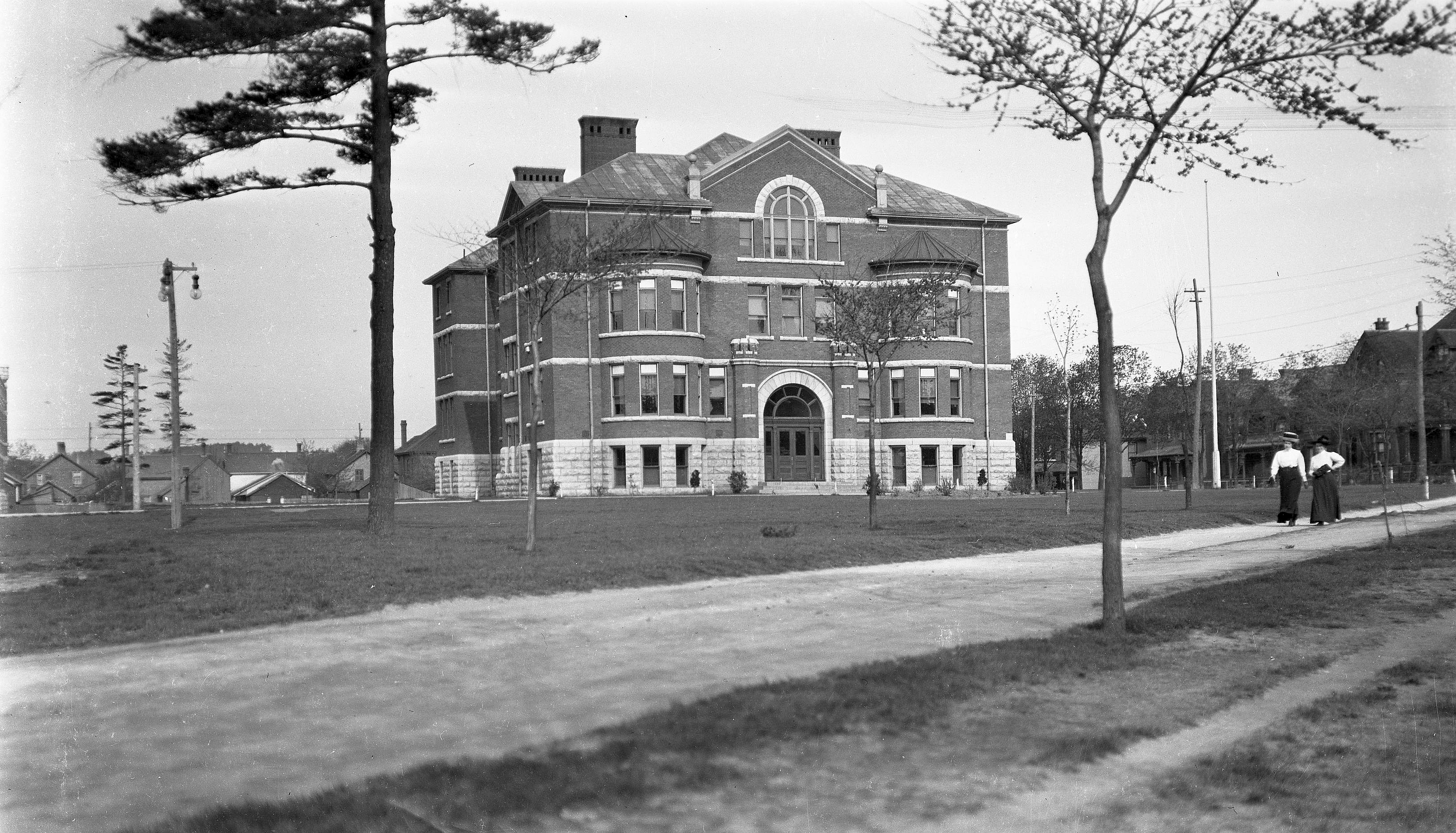 Peterborough Collegiate Institute, Peterborough, Ontario.